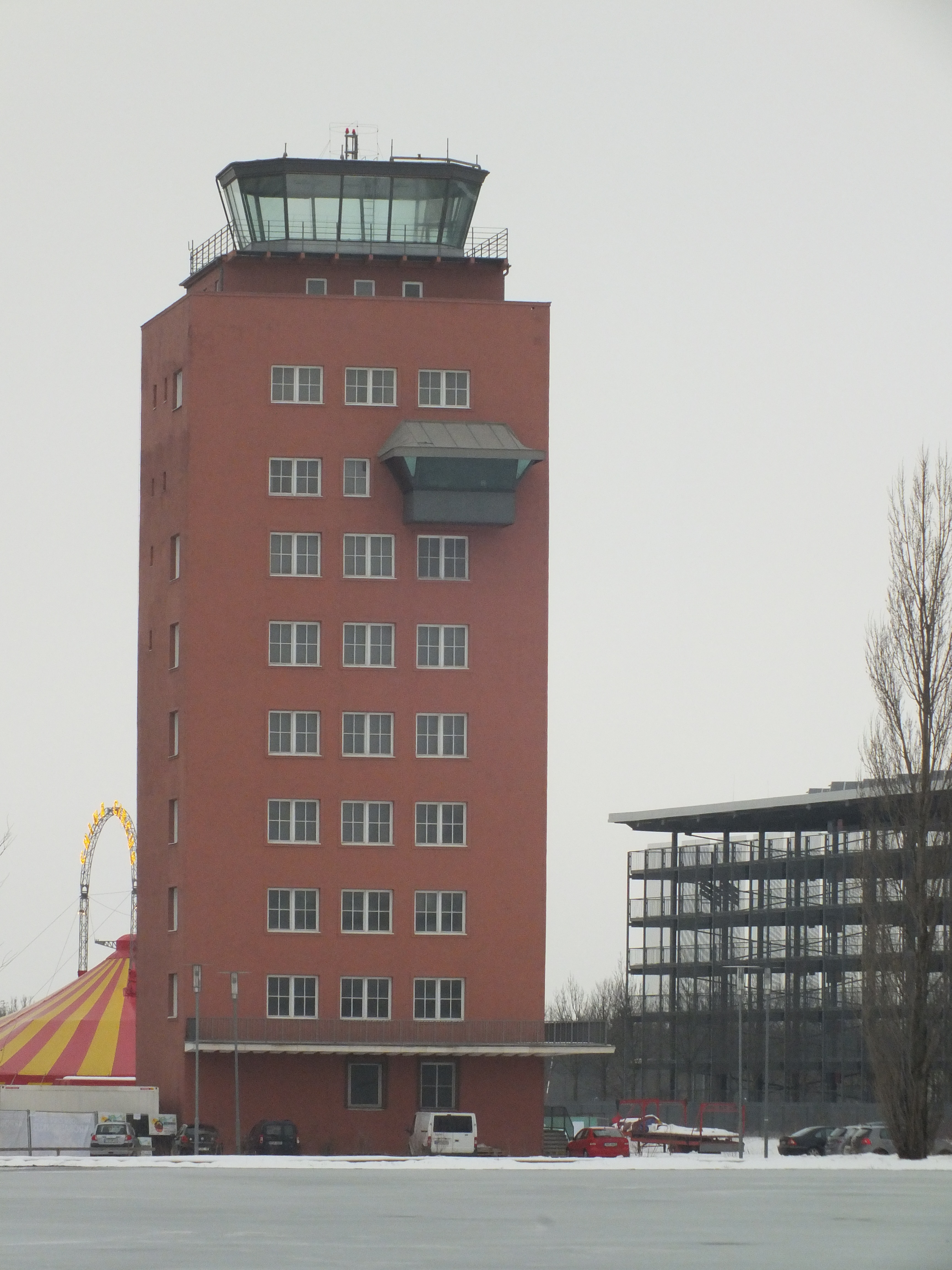 Tower of former airport Munich Riem Deitsch: Kontrollturm des früheren Flughafens München-Riem